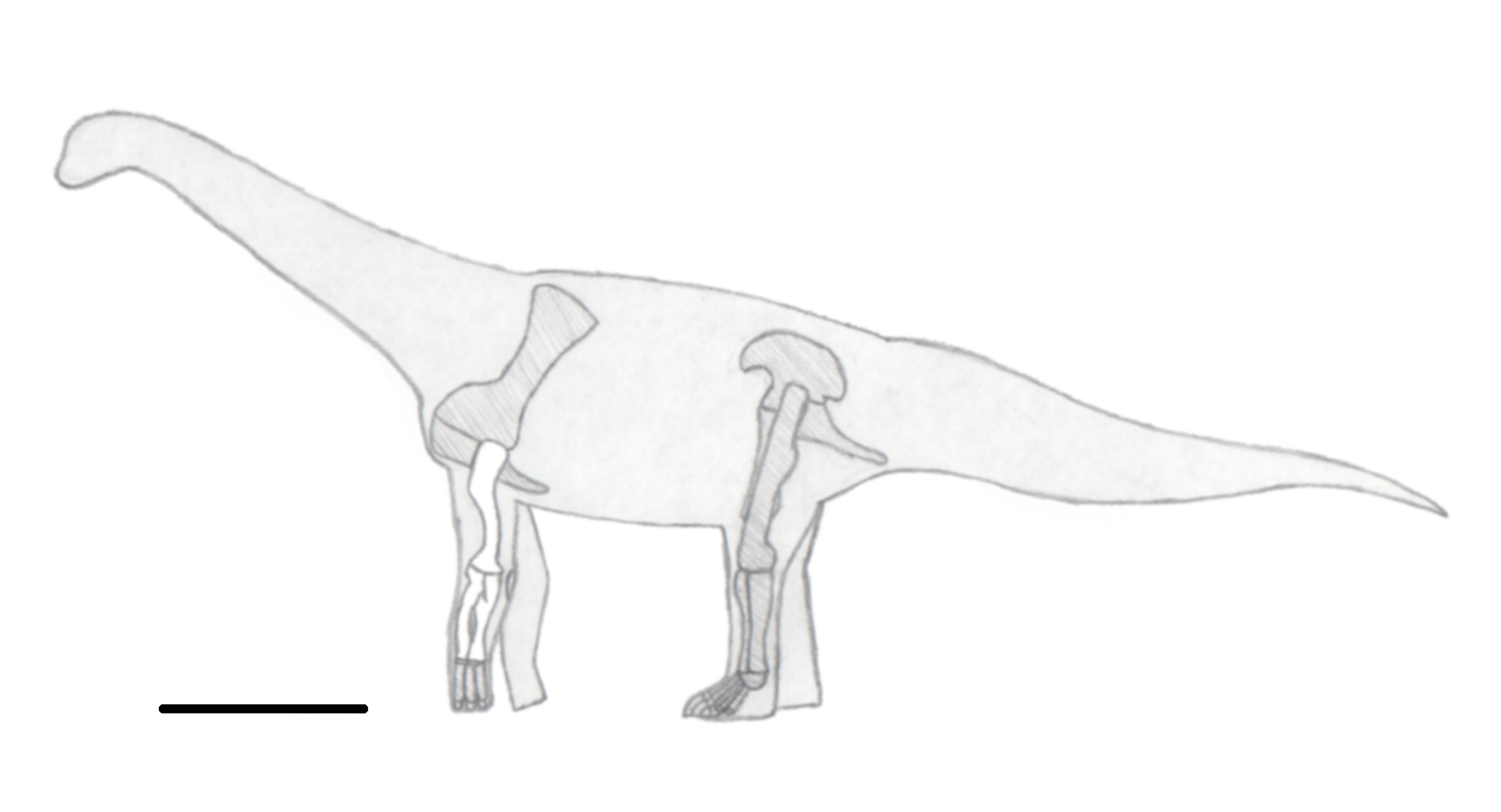 Skeletal restoration of Haestasaurus becklesii, known material in white. Scale bar = 1m.